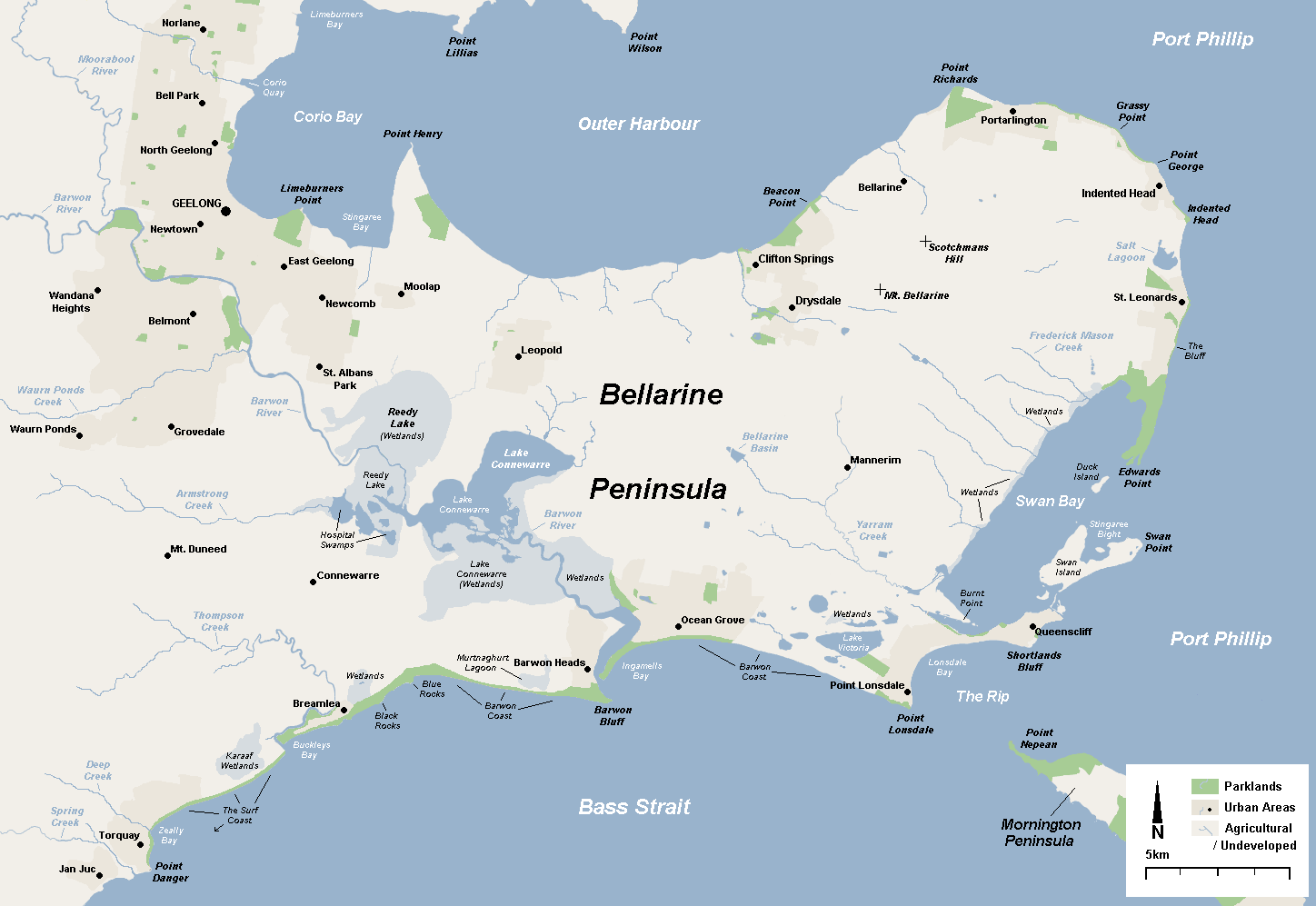 A basic map of the Bellarine Peninsula from a geographic perspective showing natural landforms and waterbodies. Made by myself in November 2008.